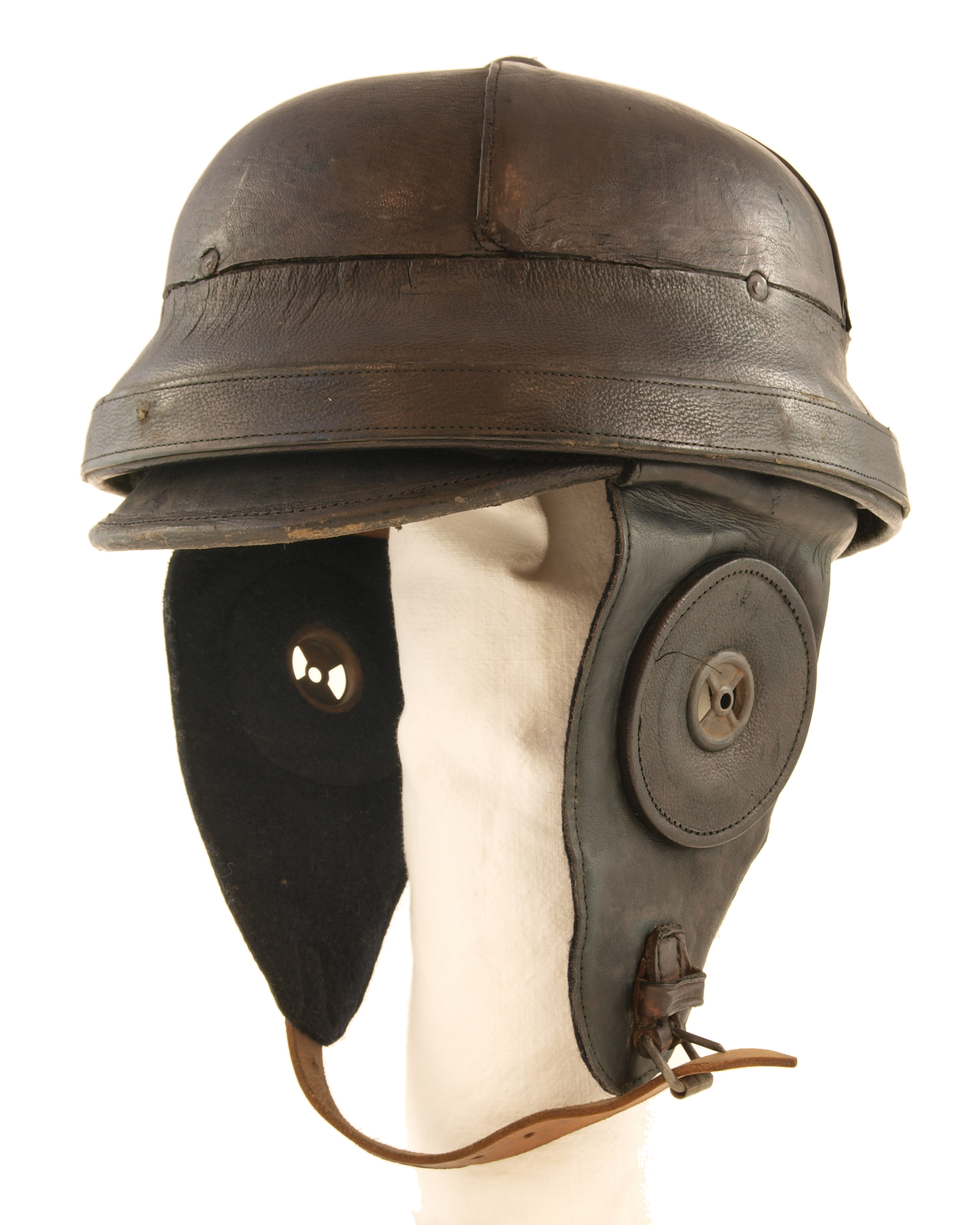 German pilot helmet of World War I. Hat size 57. Made of Leather, wool, cotton/linnen and metal. Dated to 1910s. Inventory No. 1994,42. Front right. Height: 150 mm (5.9 in). Width: 210 mm (8.3 in). Depth: 225 mm (8.9 in).